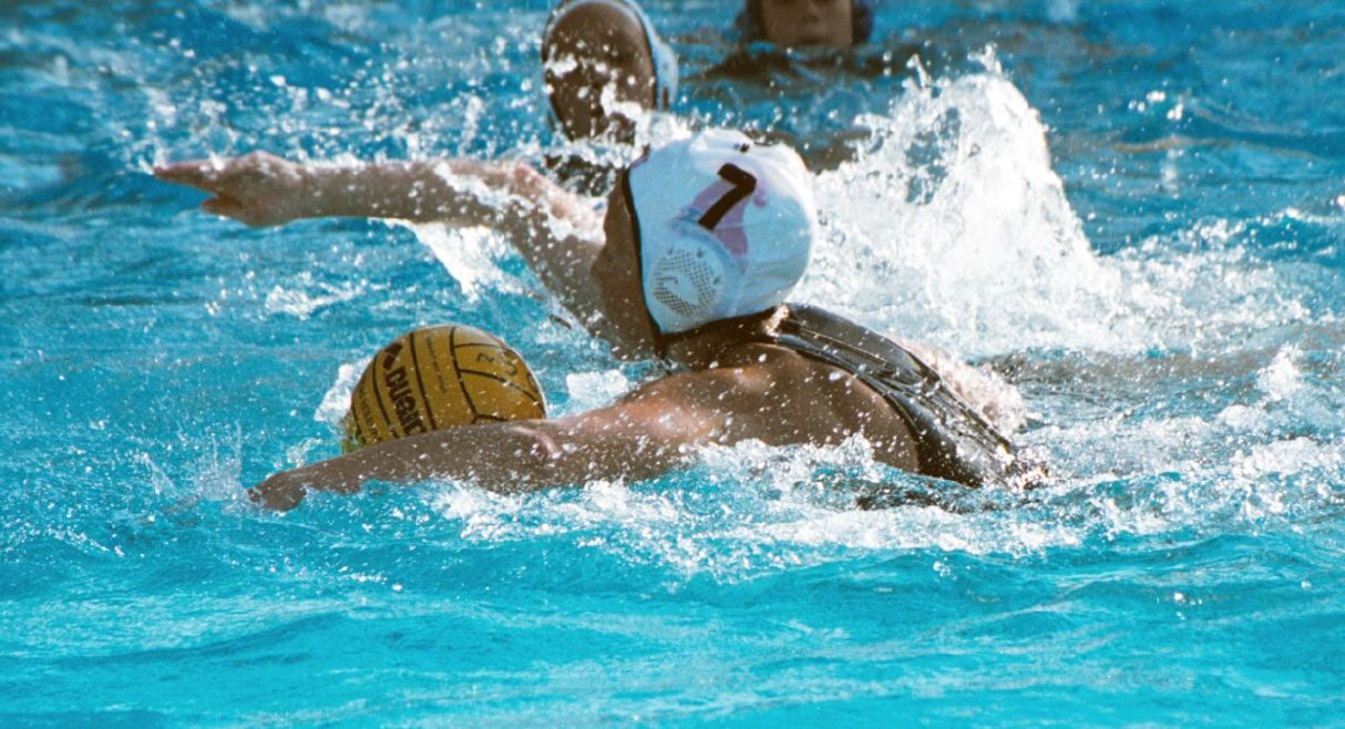 Personal photo--Ryanjo 19:29, 4 July 2006 (UTC)